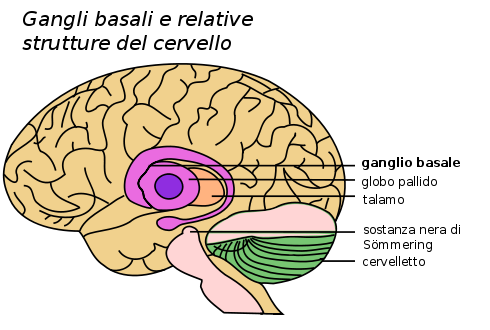 Author - John Henkel, from the Food and Drug Administration Structure of the basal gandlia, including thalamus, globus paladus, substantia nigra, and cerebellum